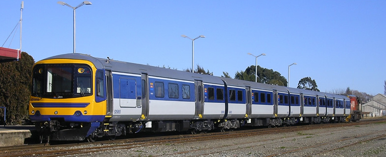 DC4409 with a Transdev Auckland SD Class set at Masterton during a test run